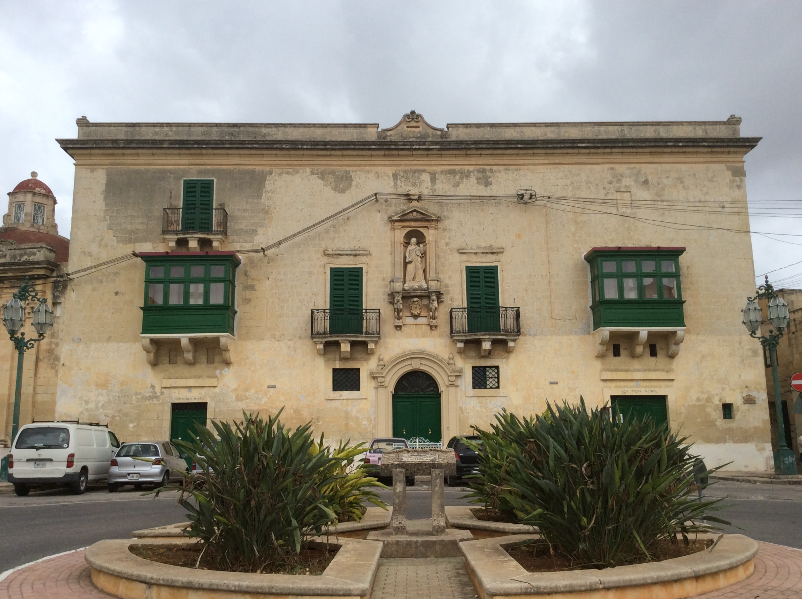 Niche of Prophet Daniel This media is about Maltese cultural property with inventory number 01912.